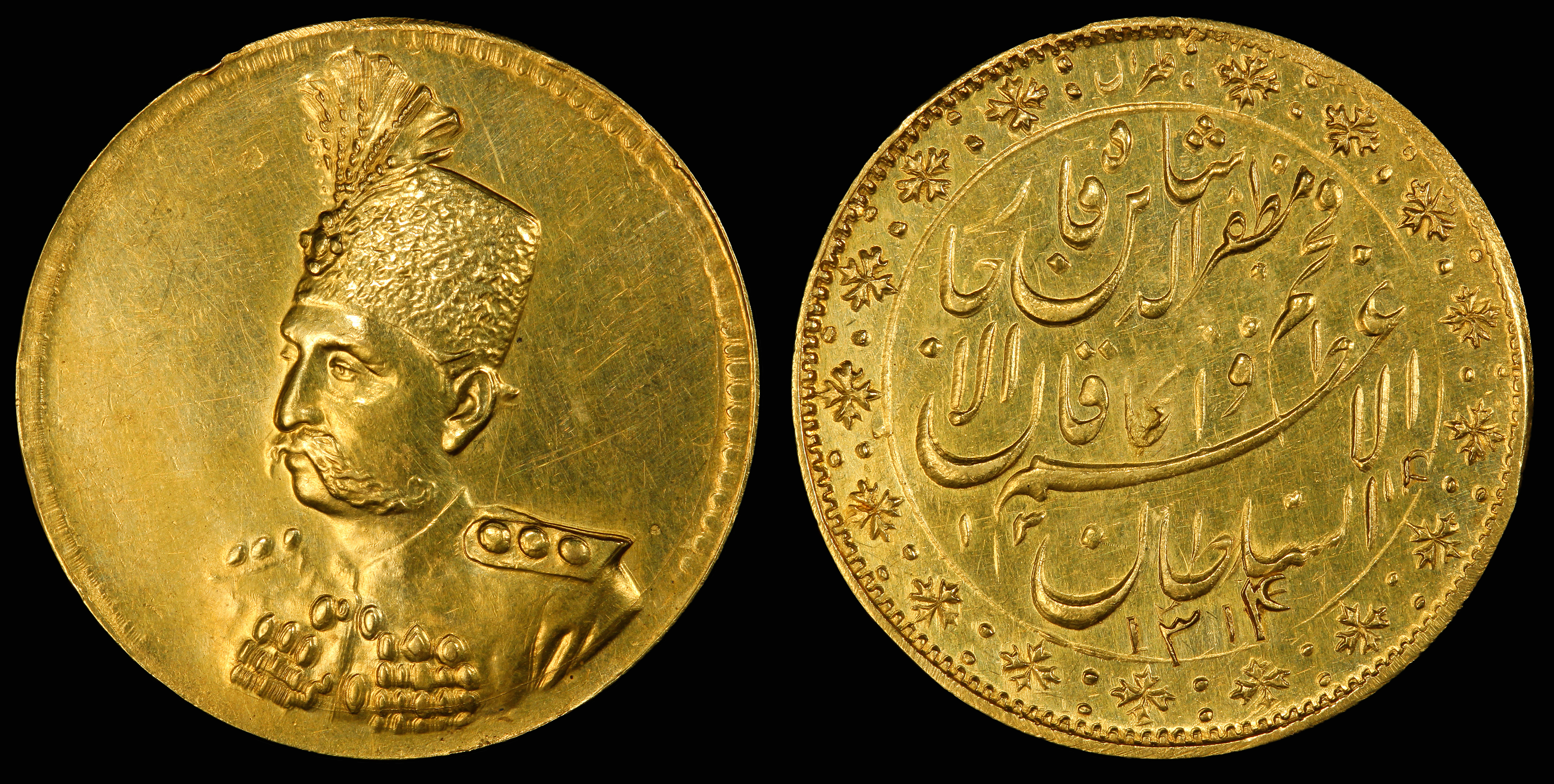 Iran (Persia), 10 toman, AH1314 (c. 1896), depicting Mozaffar ad-Din, Shah of the Qajar dynasty.